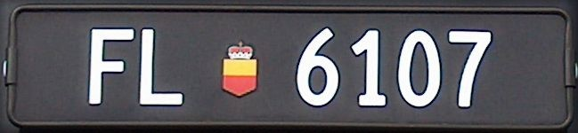 License plate of Liechtenstein